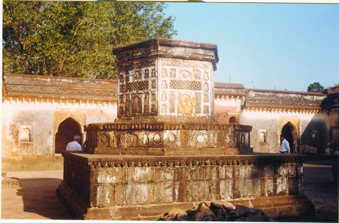 This is the Samadhi of Thorale Bajirao at Vrindavan Raverkhed , Died ON 28th april 1740. The tomb is kept in a state of total neglect.